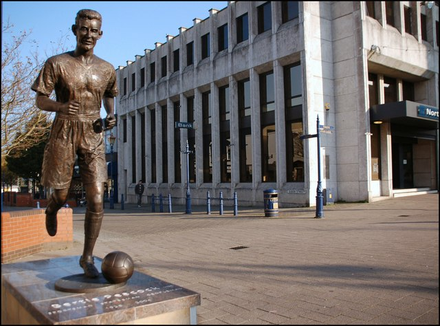 Bertie Peacock statue, Coleraine This statue to Bertie Peacock MBE (1928-2004), in the Diamond, was unveiled by Pat Jennings in July 2007. Bertie played for Belfast side Glentoran before coming to fame with Celtic. In the days before players had lucrative incomes from the game and advertising, he returned home to run a bar.